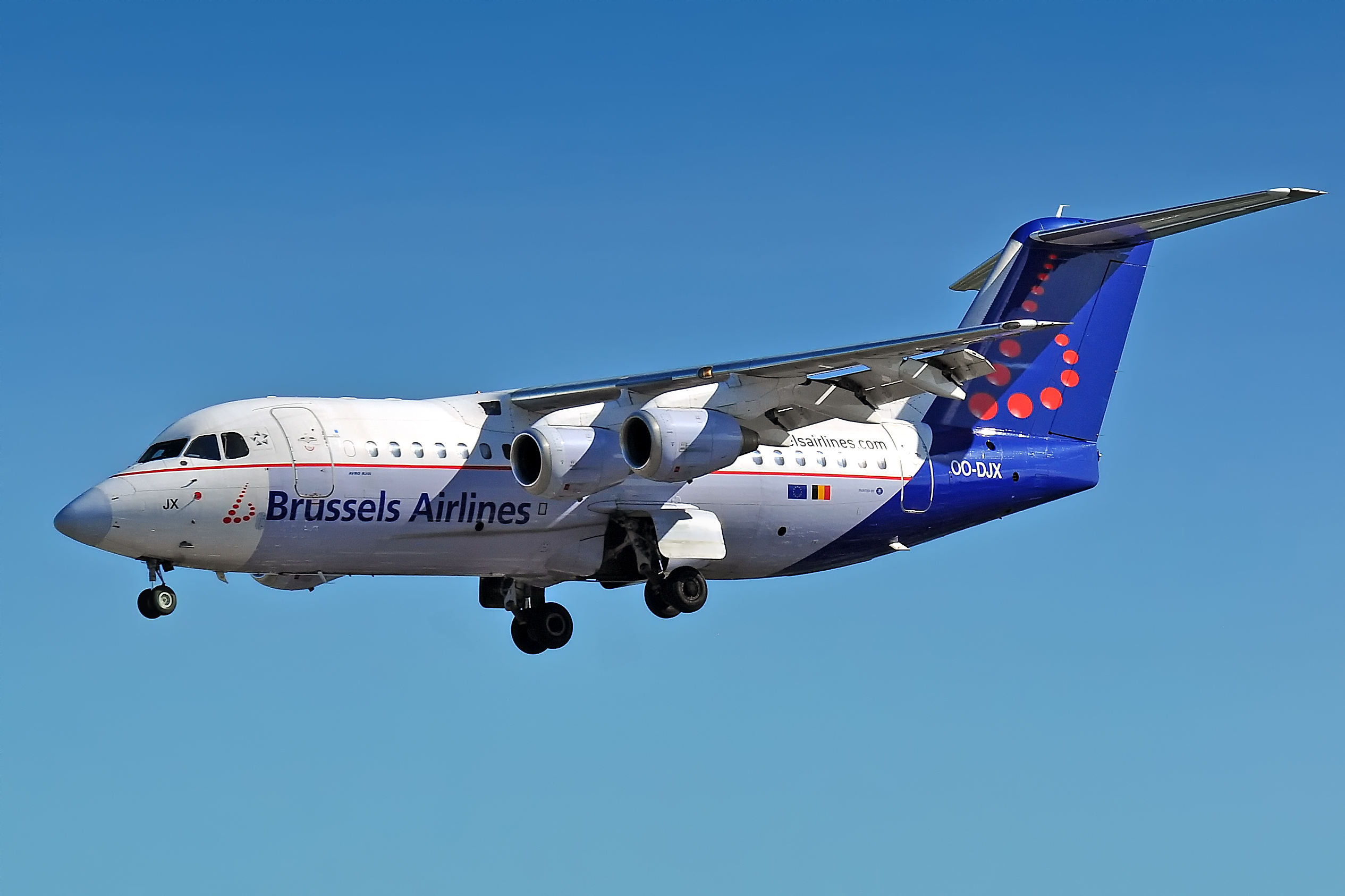 Model: Avro RJ 85 Airline: Brussels Airlines Registration number: OO-DJX